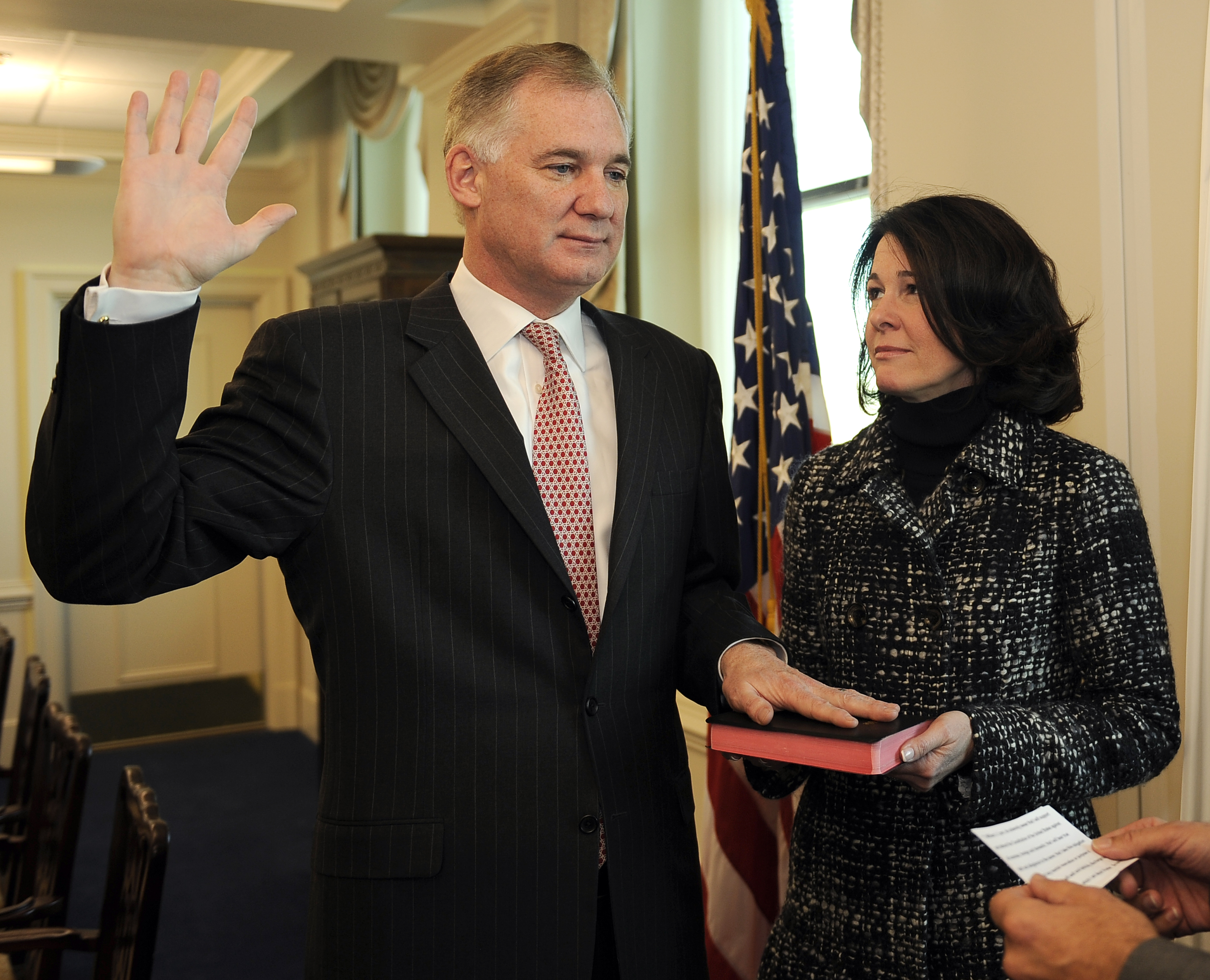 U.S. Deputy Secretary of Defense William J. Lynn III is accompanied by his wife, Mary Murphy, while being sworn in as the 30th Deputy Secretary of Defense by Jeh Charles Johnson, the Defense Department's General Counsel, February 12, 2009, at the Pentagon. Lynn previously served as the Defense Department's Comptroller during the Clinton administration.